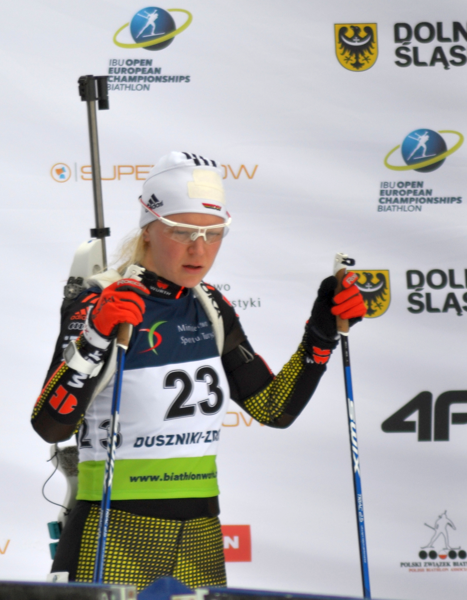 Open European Championships Biathlon 2017, Individual Women's race, held on January 25th.